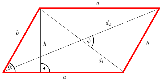 Parallelogram.